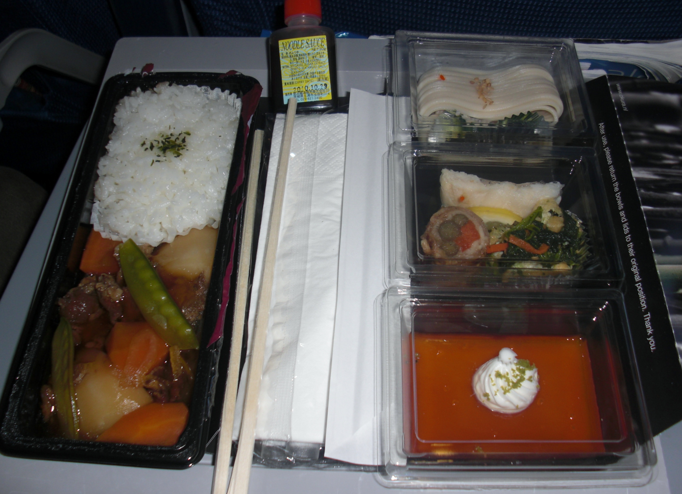 This is an airline meal by KLM Royal Dutch Airlines. This is Japanese Cuisine made by Hotel Okura Amsterdam.